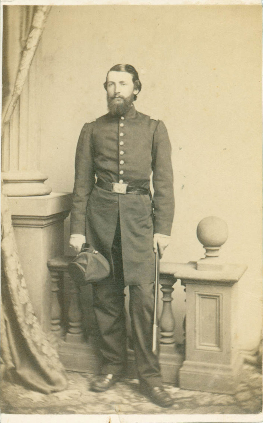 Carte de visit of Captain Norwood Penrose Hallowell, in uniform. Original 10 cm x 6 cm.